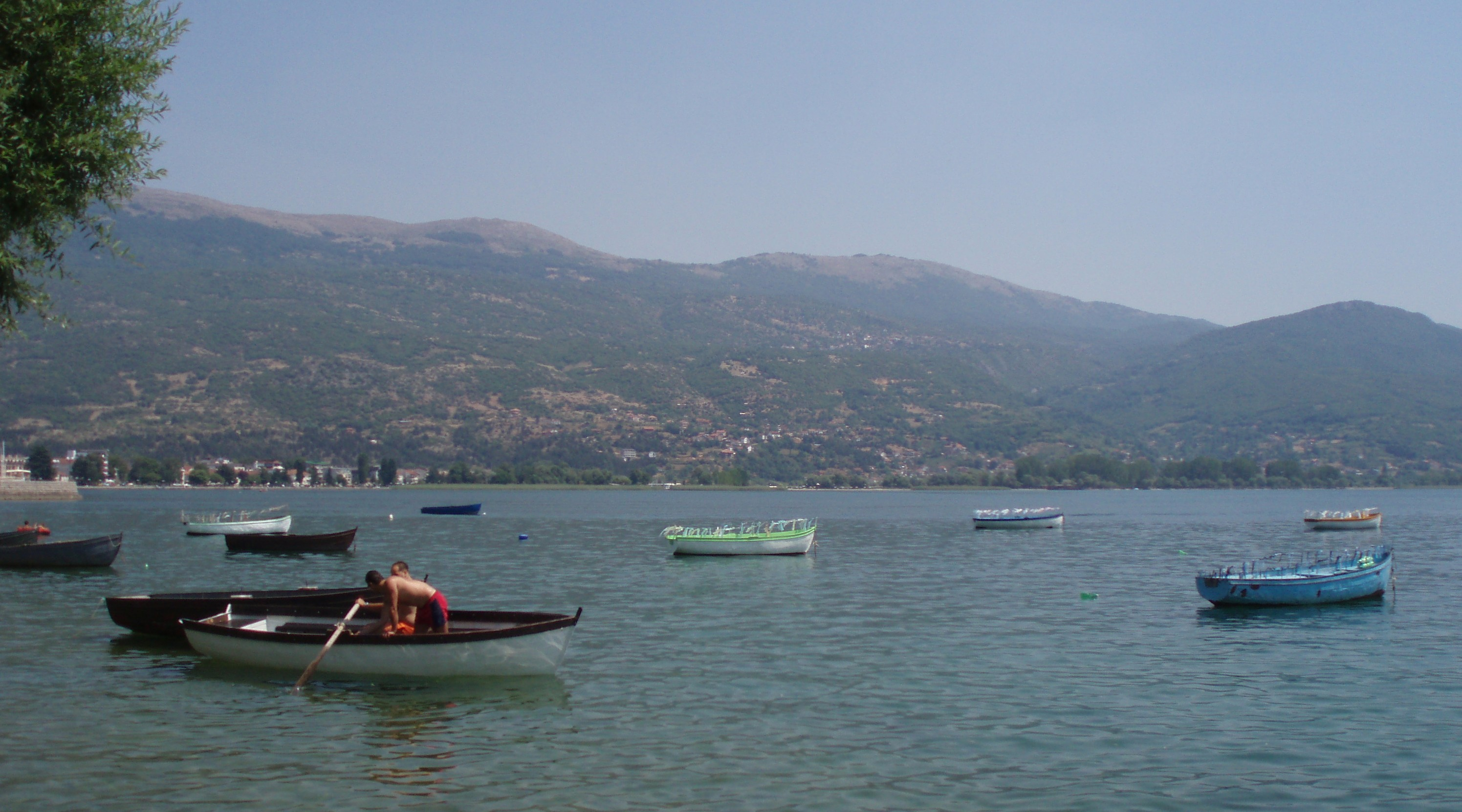 Lake Ohrid seen from the old city of Ohrid in Republic of Macedonia